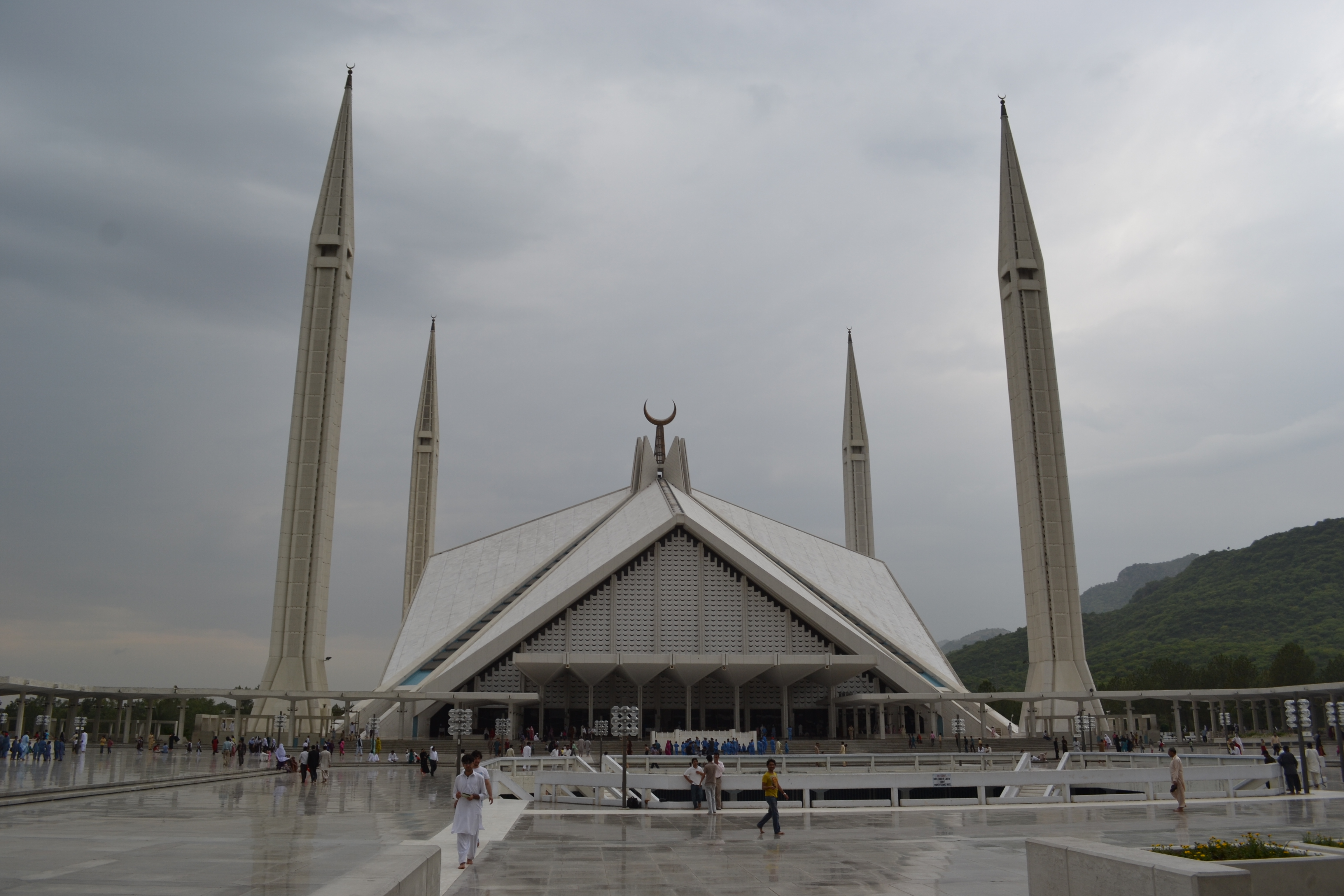 Faisal Mosque from southern side. This is a photo of a monument in Pakistan identified as the ICT-5